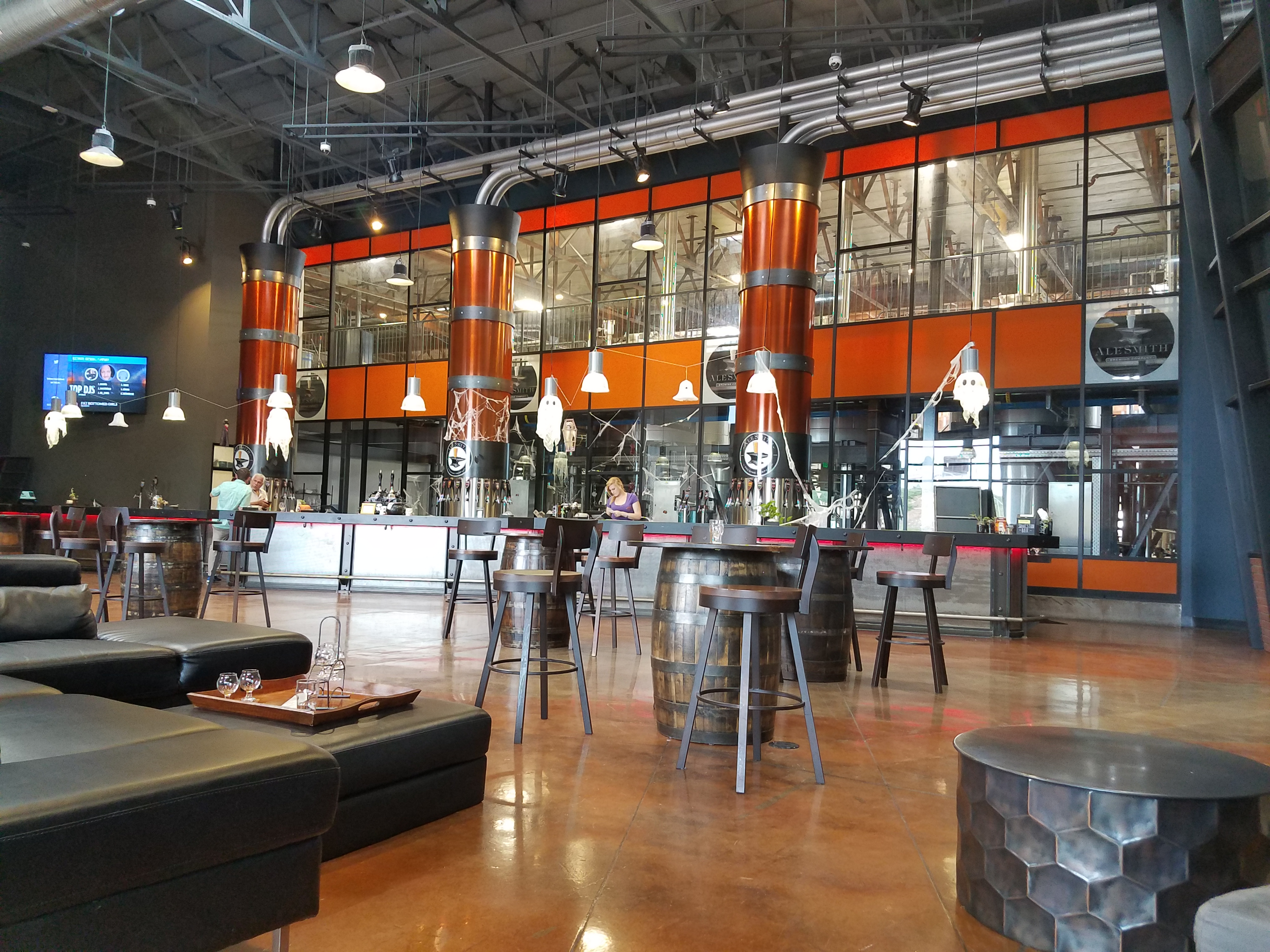 Interior shot of taproom in Alesmith's Miramar production facility